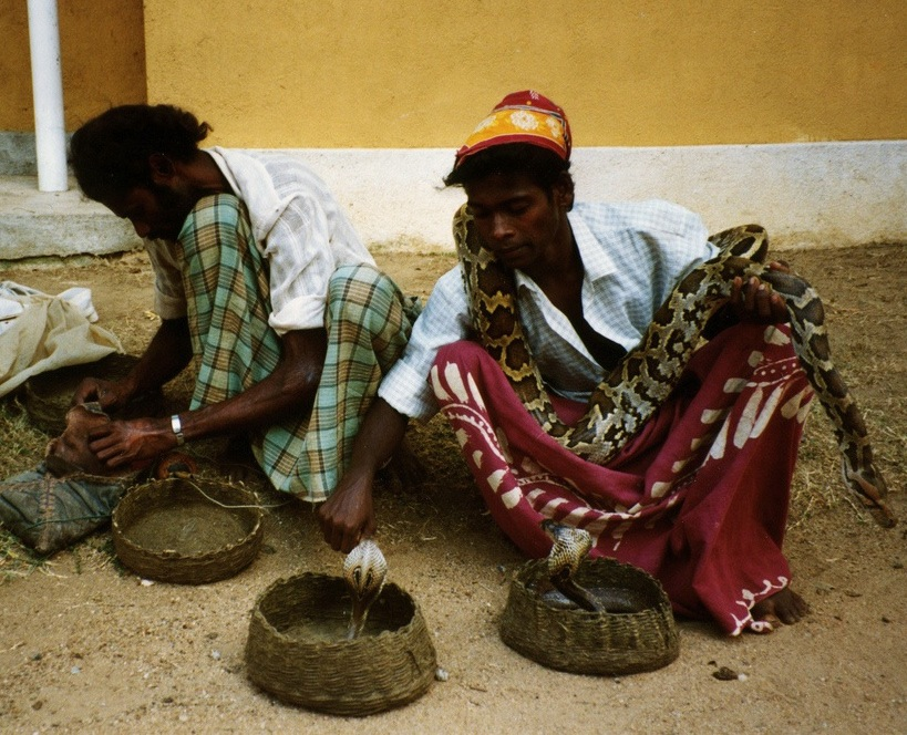 Snake Charmers in Anuradhapura (Sri Lanka) with a - for this island typically patterned - Light Phase Asian Rock Python "Python molurus pimbura" (Python molurus molurus) and two Cobras